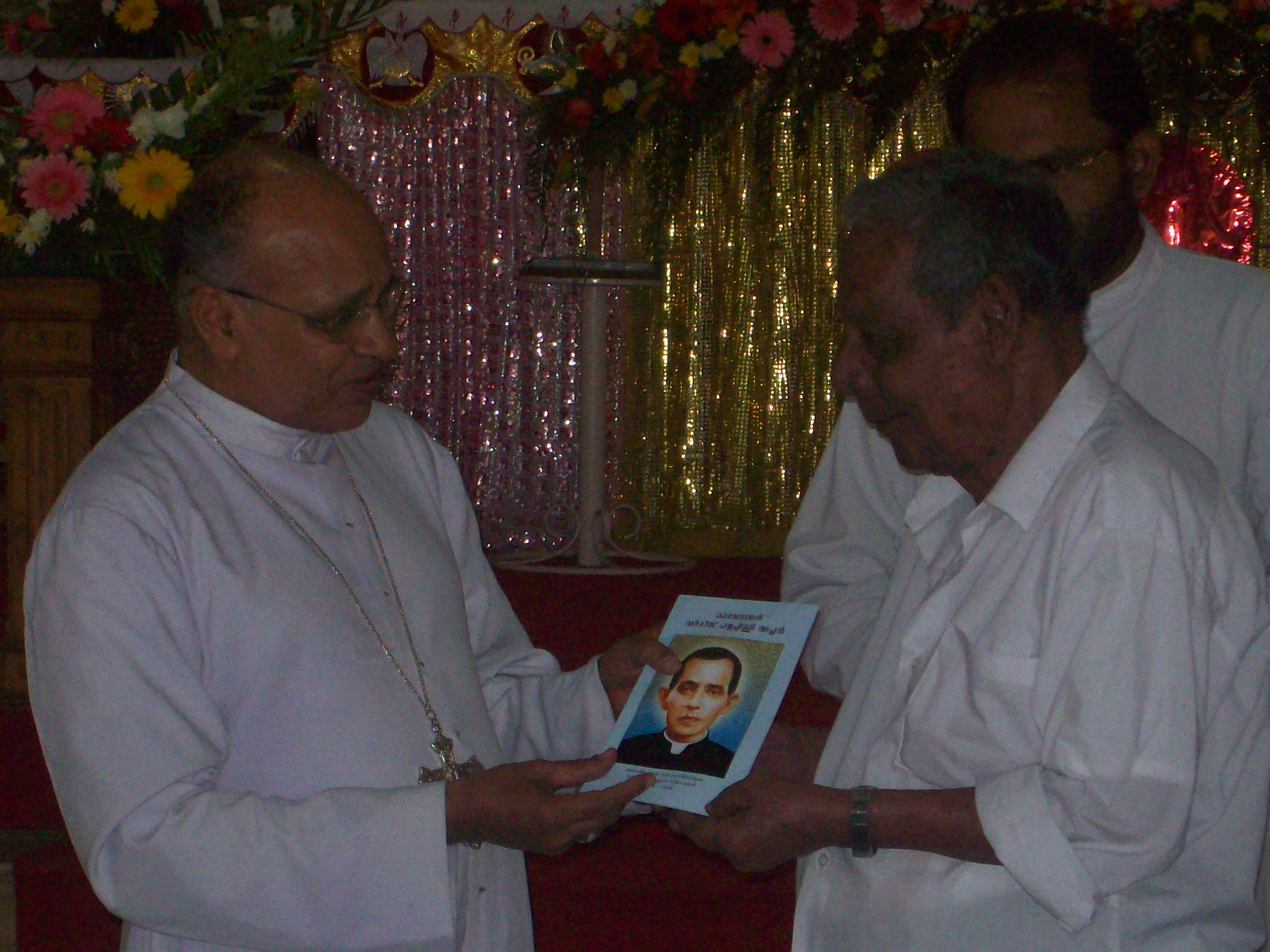 Mar Jacob Manathodath, bishop of Syro-Malabar Catholic diocese of Palakkad, releasing the biography of Servant of God Mar Varghese Payyappilly Palakkappilly by handing over a copy of it to his great-nephew Mathew Payyappilly Palakkappilly.